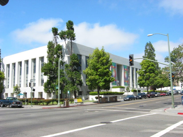 Oakland Public Library Central Library - Photo courtesy of Group 4